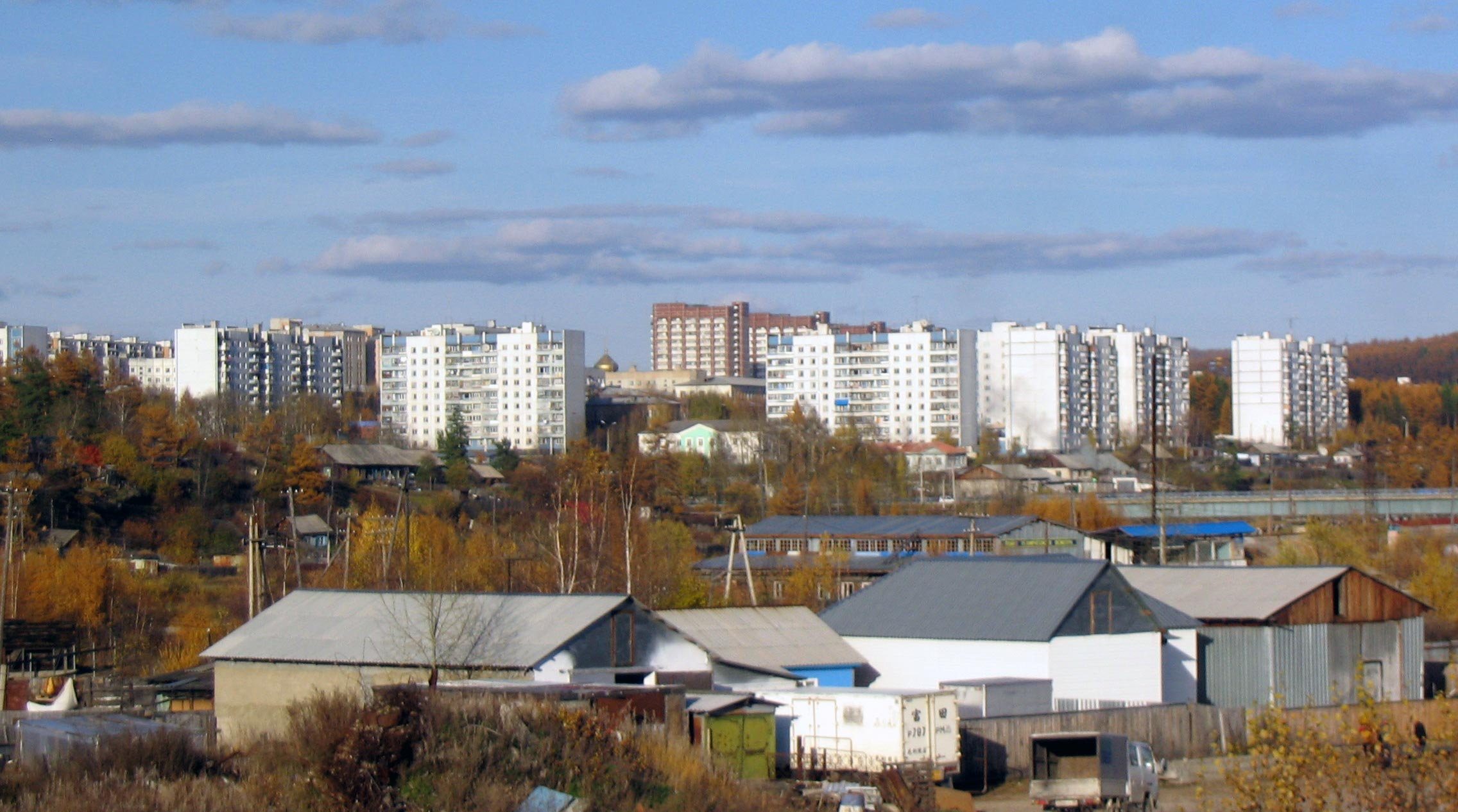 Tynda from right-bank